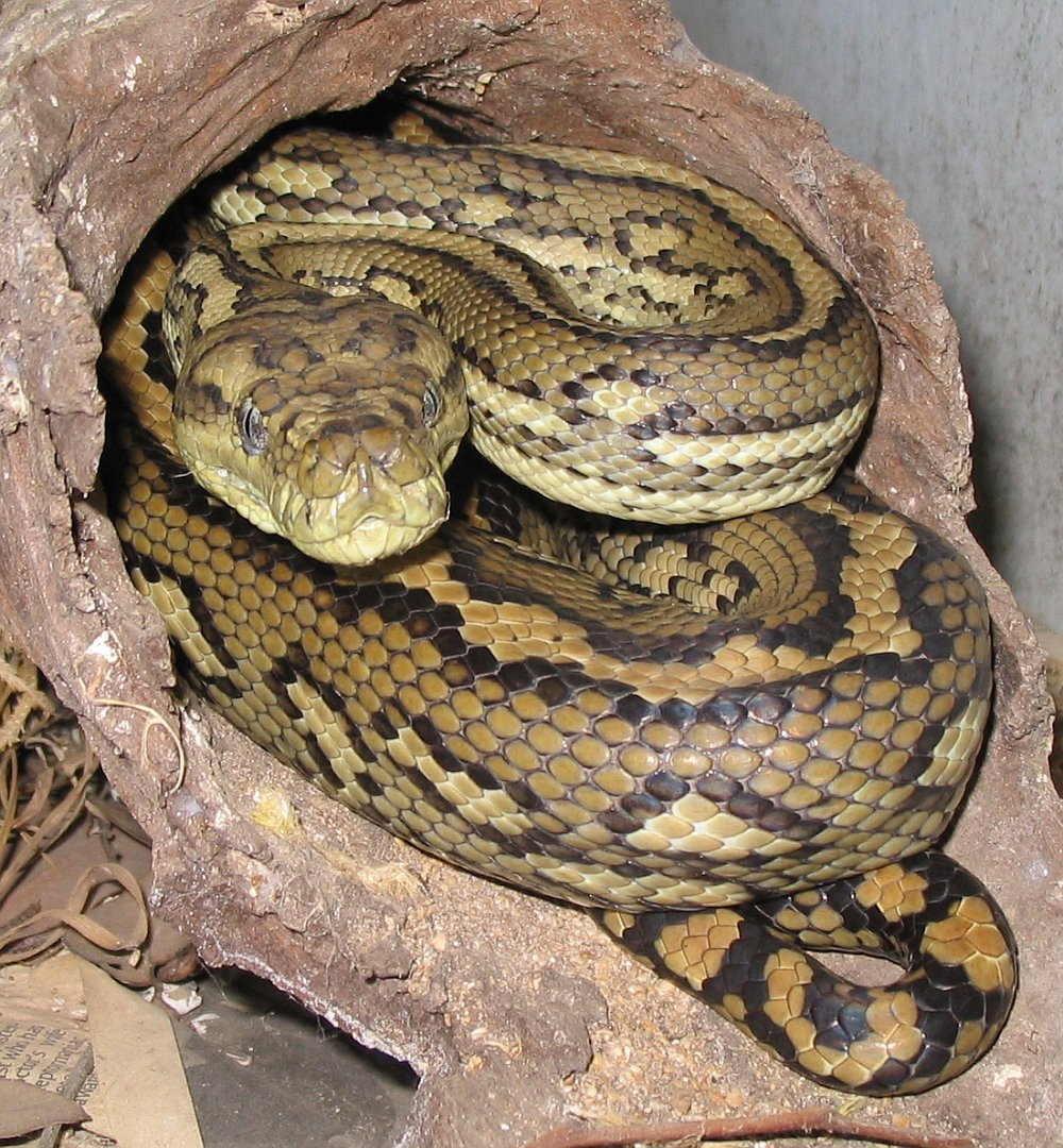 Australian Coastal Carpet Python (snake)